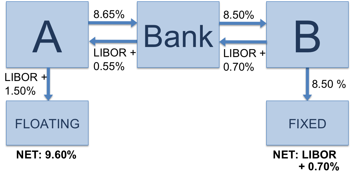 diagram of a vanilla interest rate swap with a bank intermediary